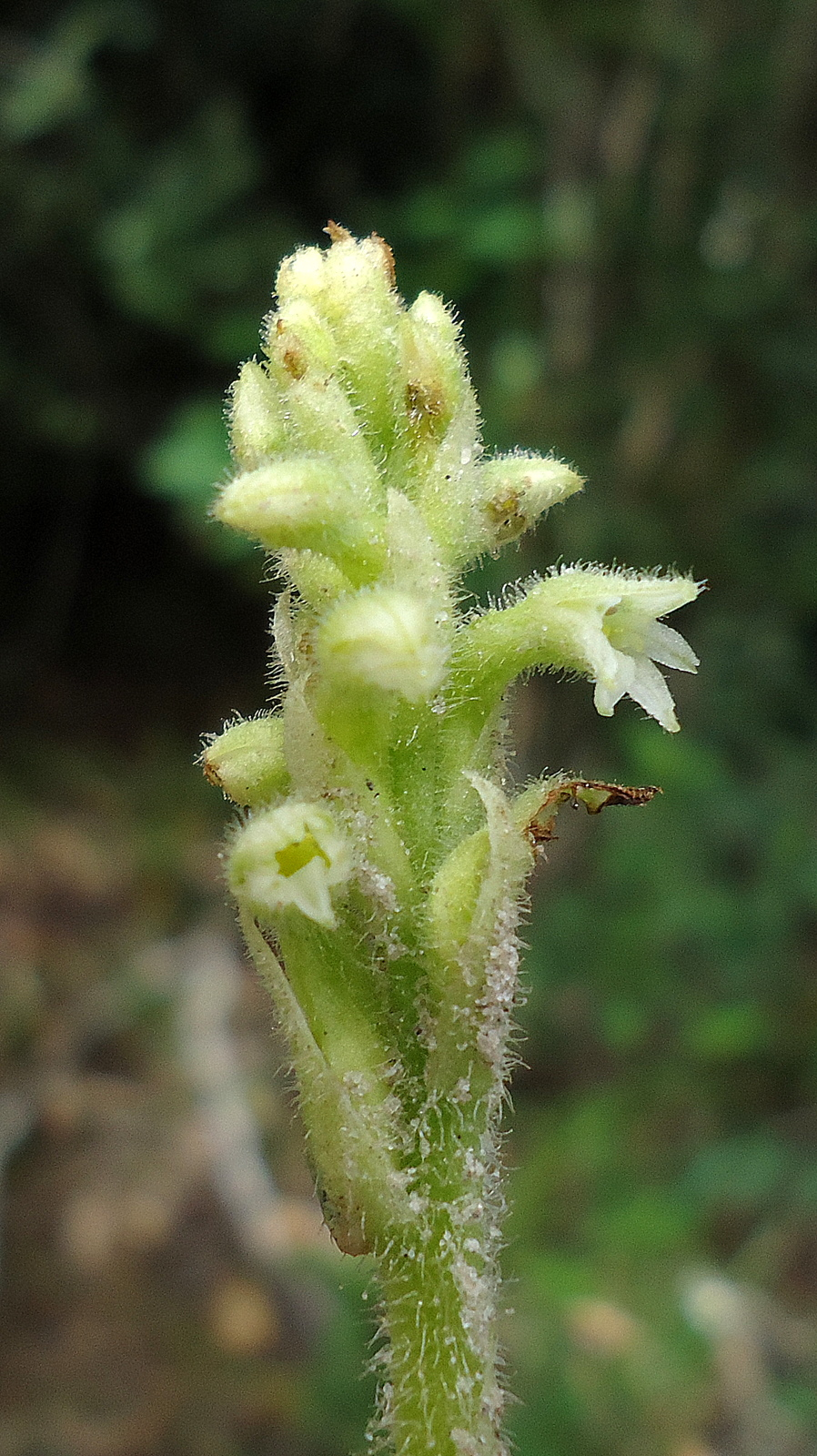 Discyphus scopulariae (Rchb.f.) Schltr. (1919)